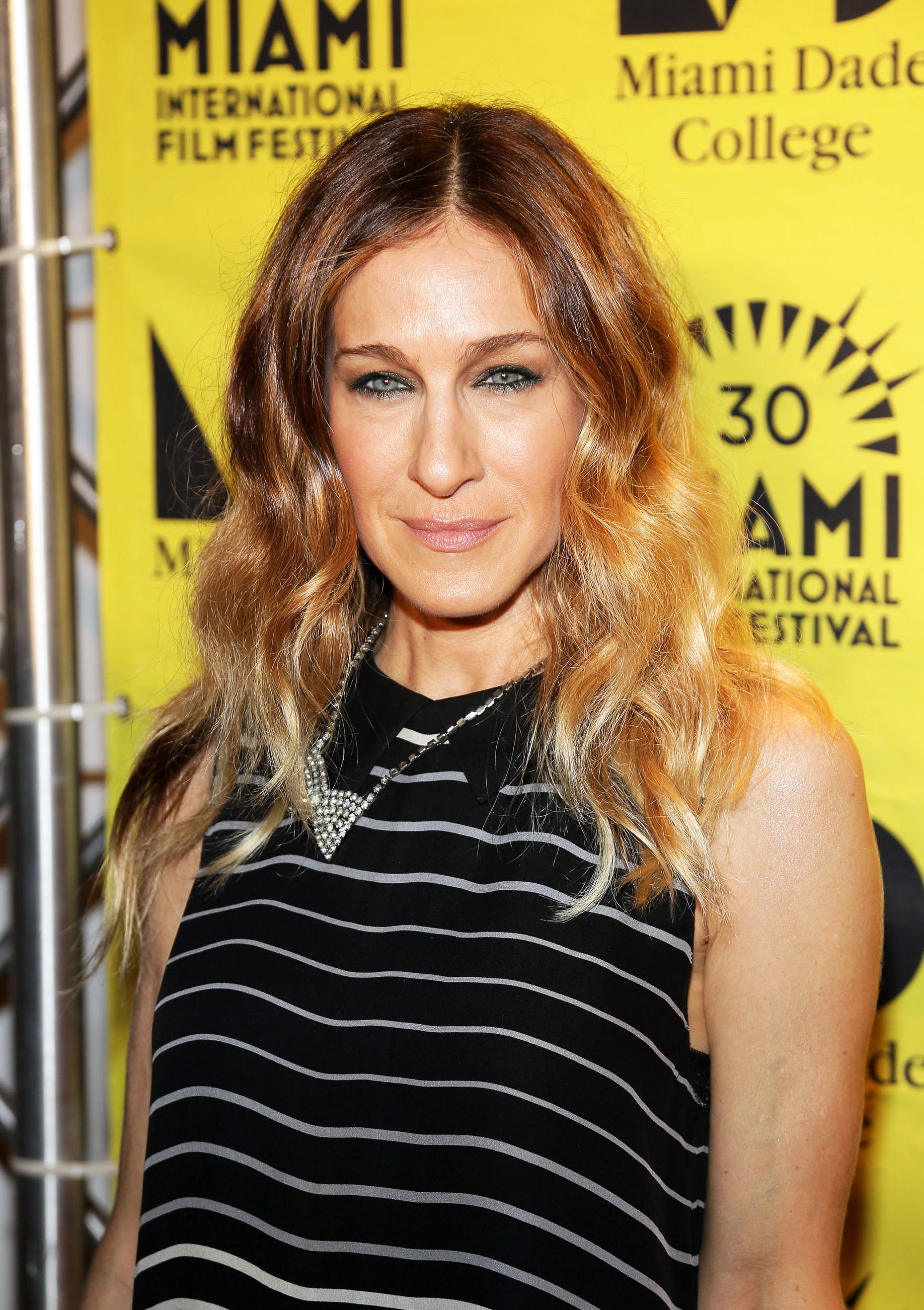 MIAMI, FL - FEBRUARY 08: Sarah Jessica Parker arrives at Miami Rhapsody 30th Anniversary Celebration presented by Miami International Film Festival on February 8, 2013 in Miami, Florida.